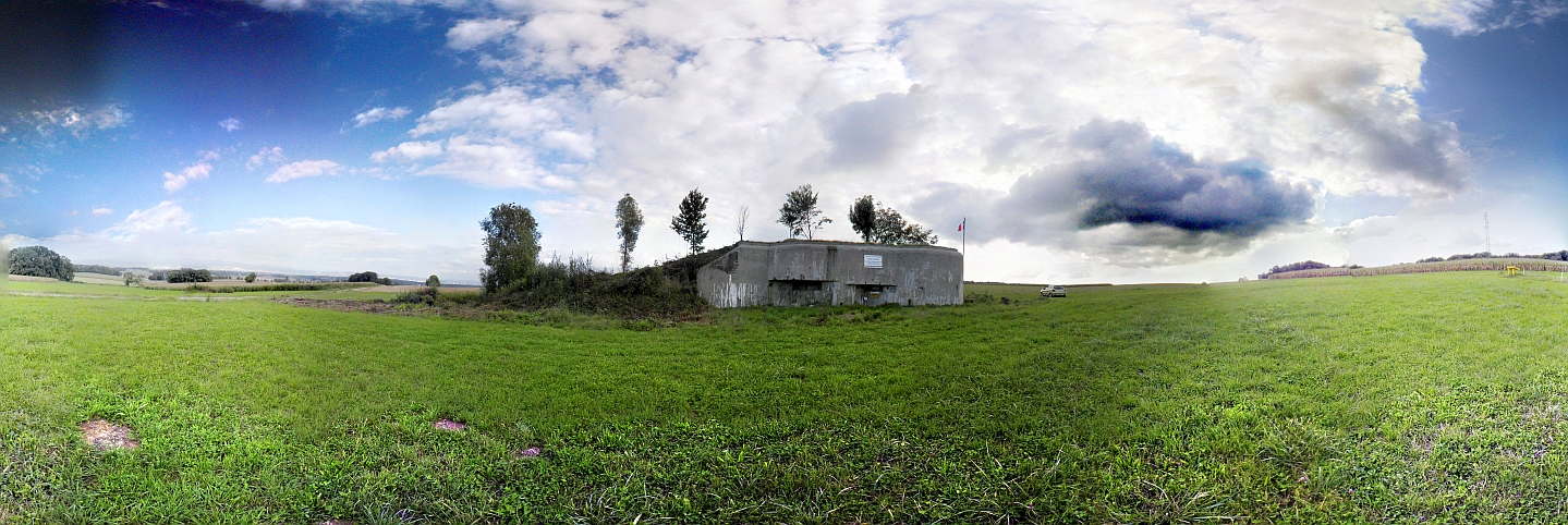 360° Panorama from casemate n°87 des Vernes (Magstatt-le-Bas, Maginot Line)